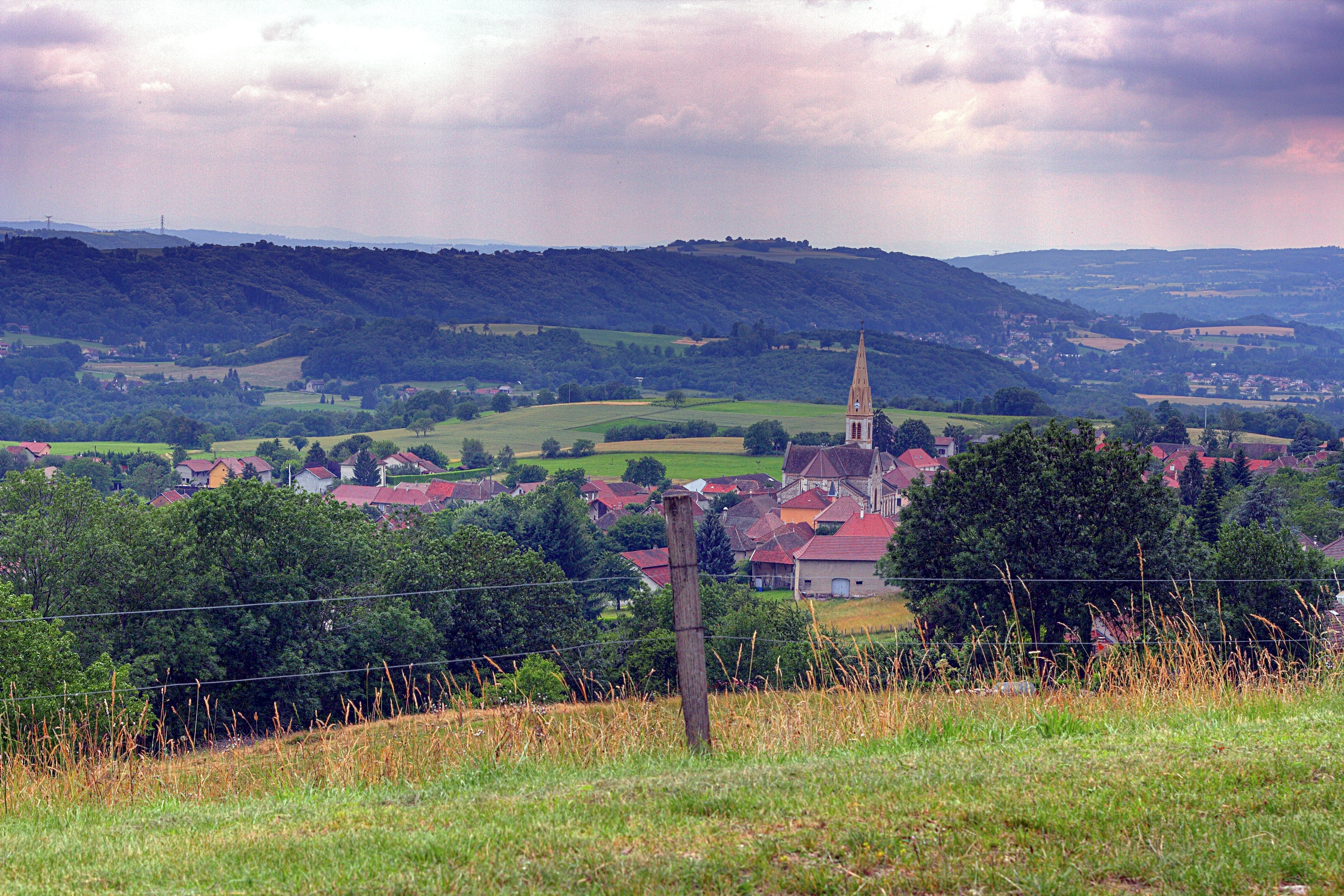 Commune de Sermérieu vue de Salagnon.